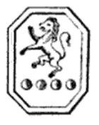 Grace coat of arms